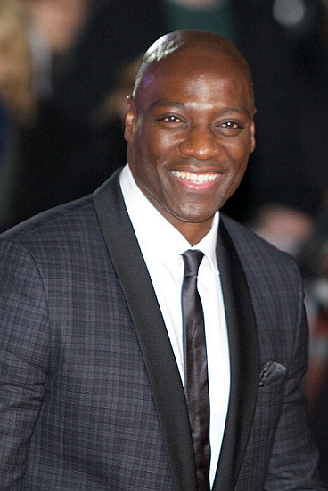 Actor Adewale Akinnuoye-Agbaje at the premiere for Thor: The Dark World, October 25, 2013